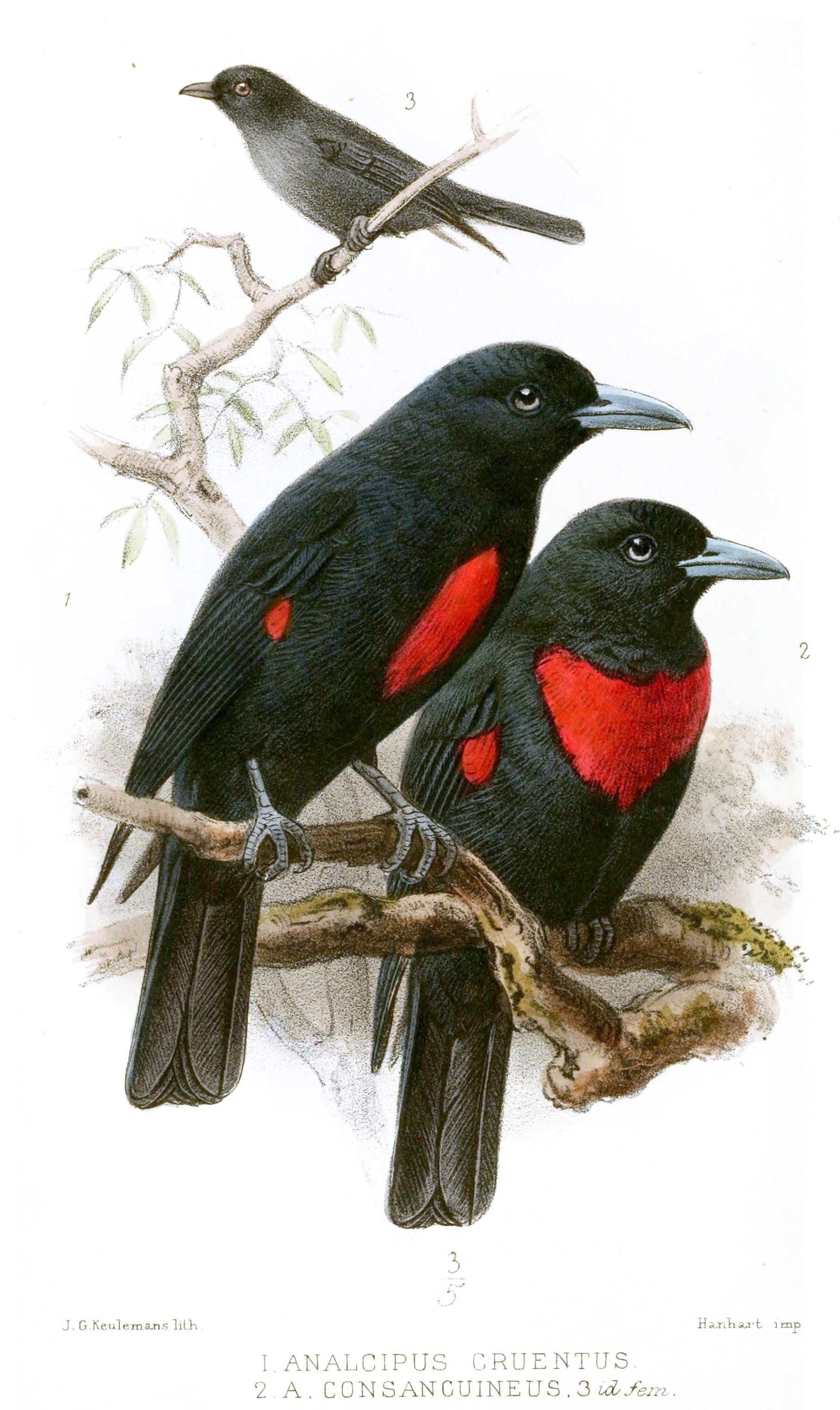 1. « Analcipus cruentus » = Oriolus cruentus (Black-and-crimson Oriole) 2. & 3. « Analcipus consanguineus » = Oriolus cruentus consanguineus (Subspecies of Black-and-crimson Oriole)